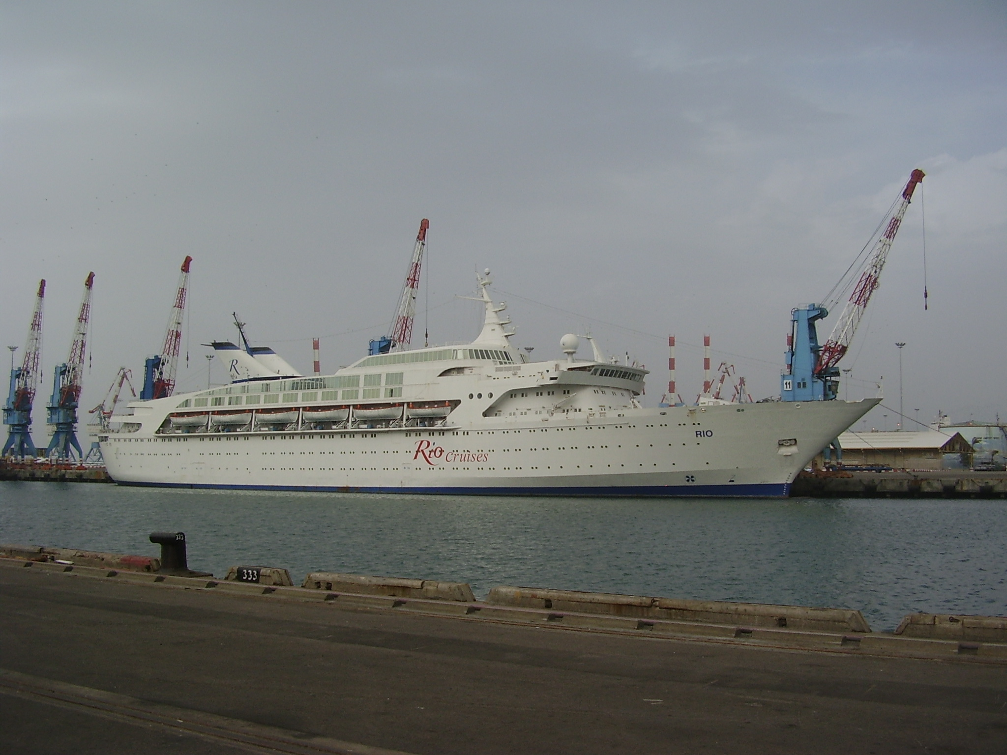 "Rio" Ship in Ashdod Port